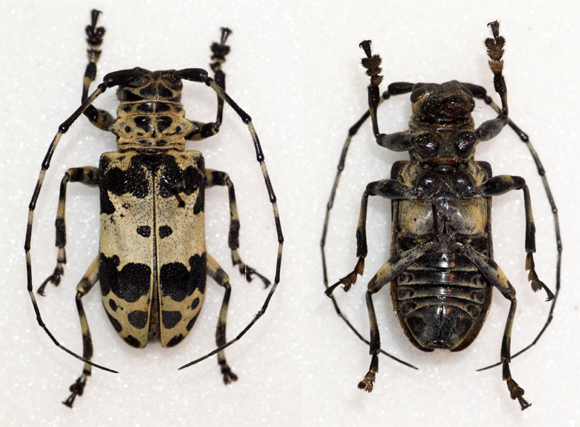 Olivier,1795 Sex: Female Data: 04-2012 - Ebogo - Cameroon Size: ?